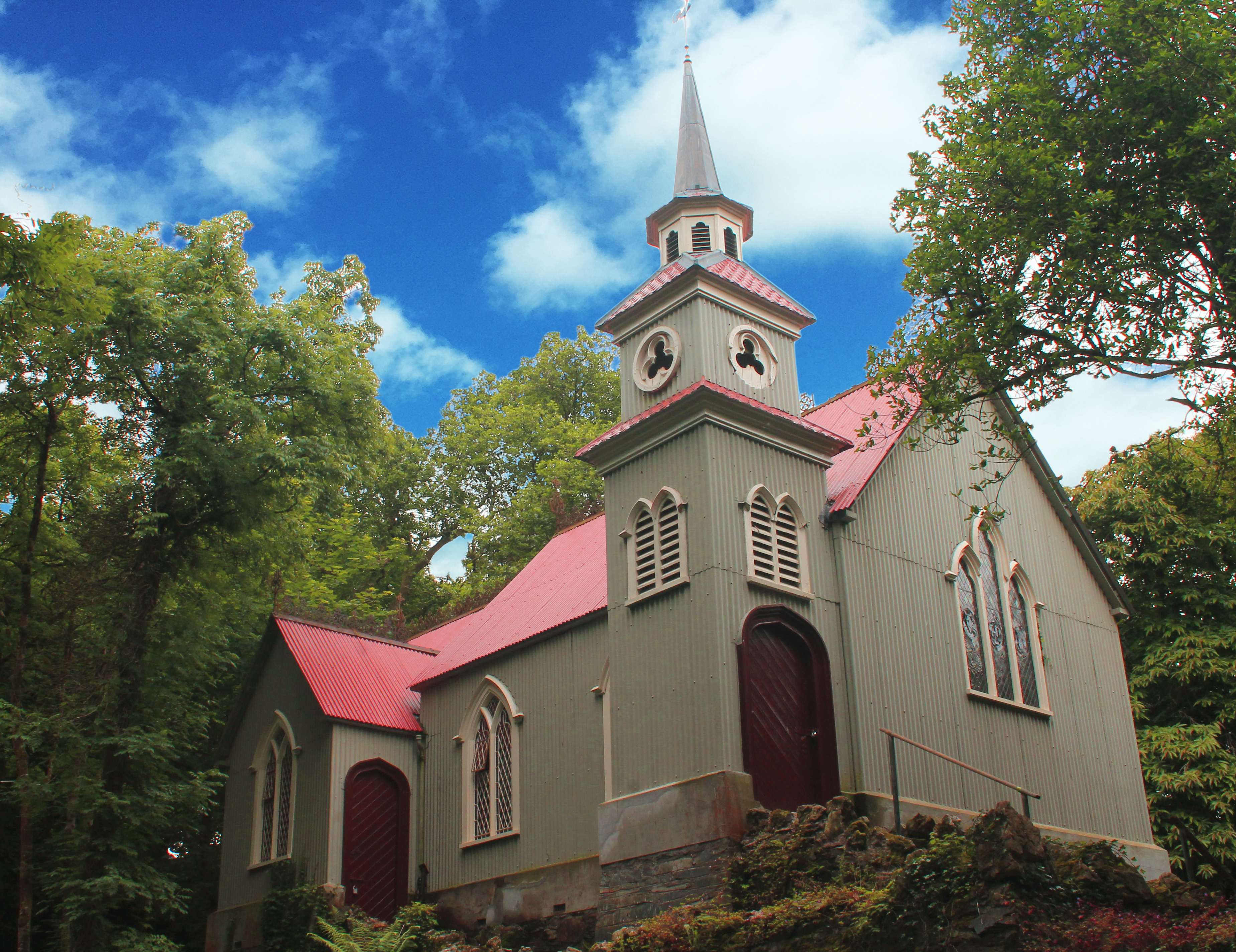 An exterior view of St Peter's tin tabernacle church in Laragh, Co. Monaghan. The church was restored and reopened in 2014.